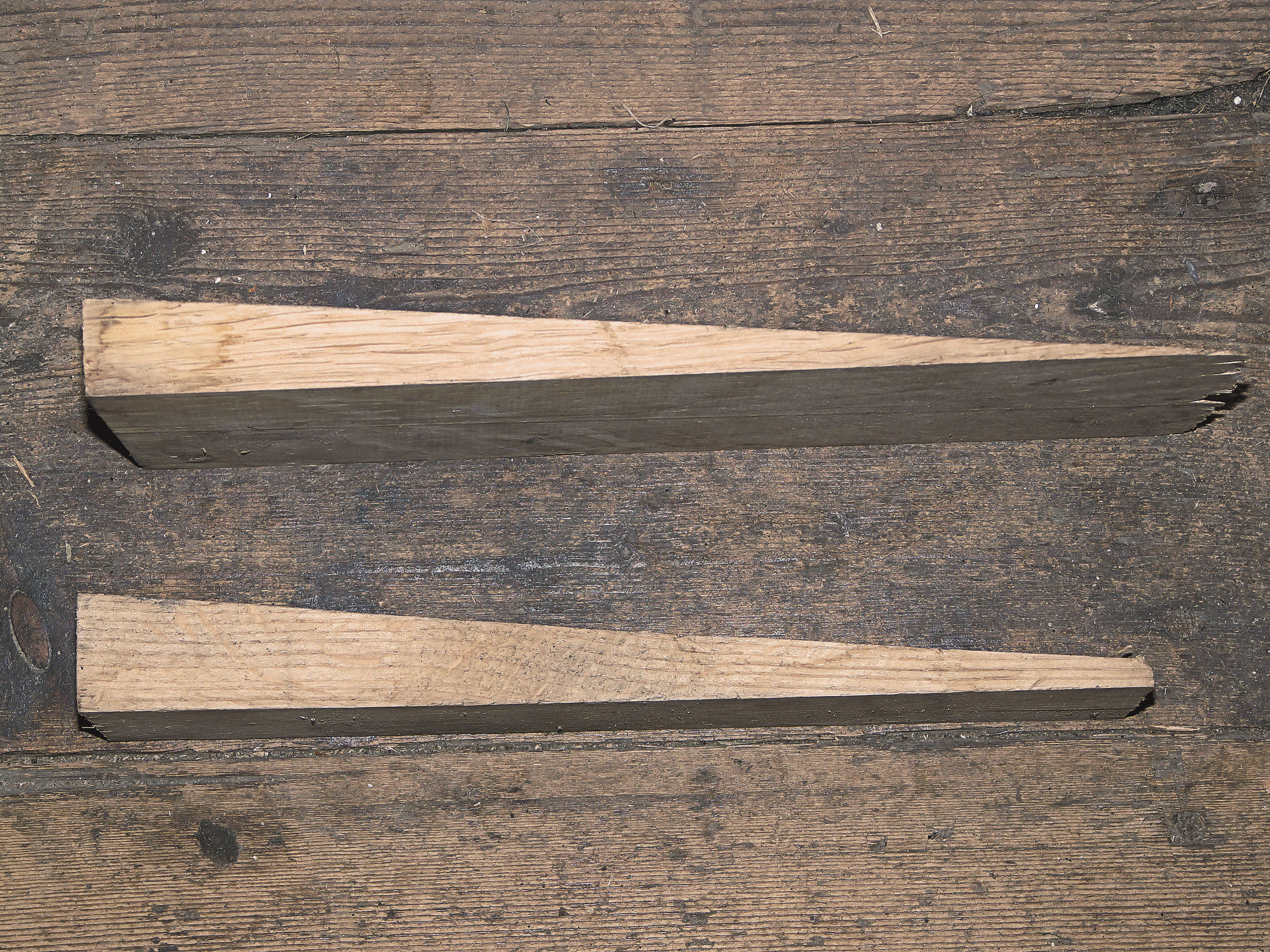 wedges